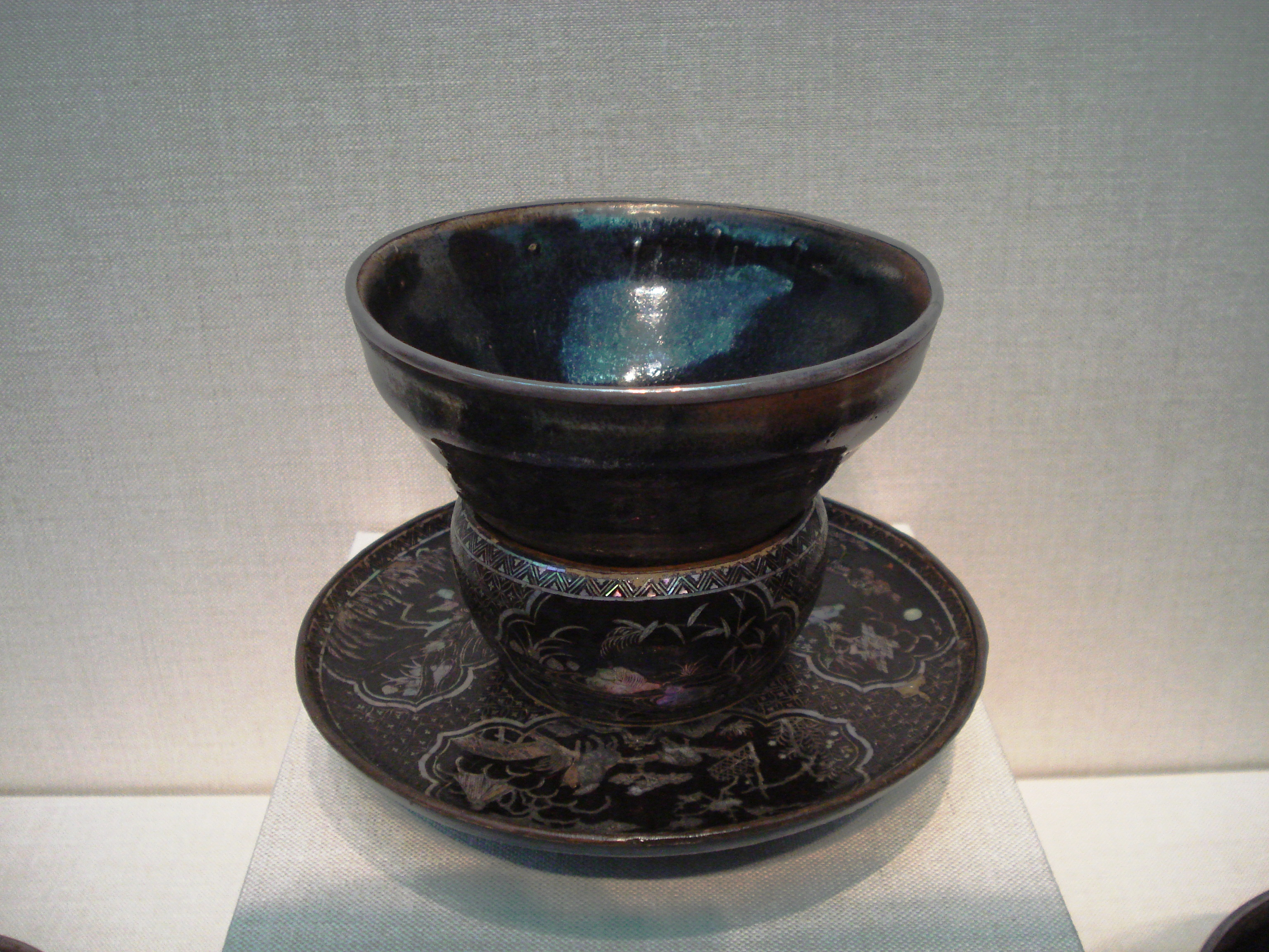 A 13th-century Song Dynasty Jian-type (of China's Fujian province) stoneware tea bowl sitting atop a 16th-century Ming Dynasty lacquer tea bowl stand with mother of pearl inlay designs of nature scenes. Both items were donated to the collection of the Freer Gallery in this setup.